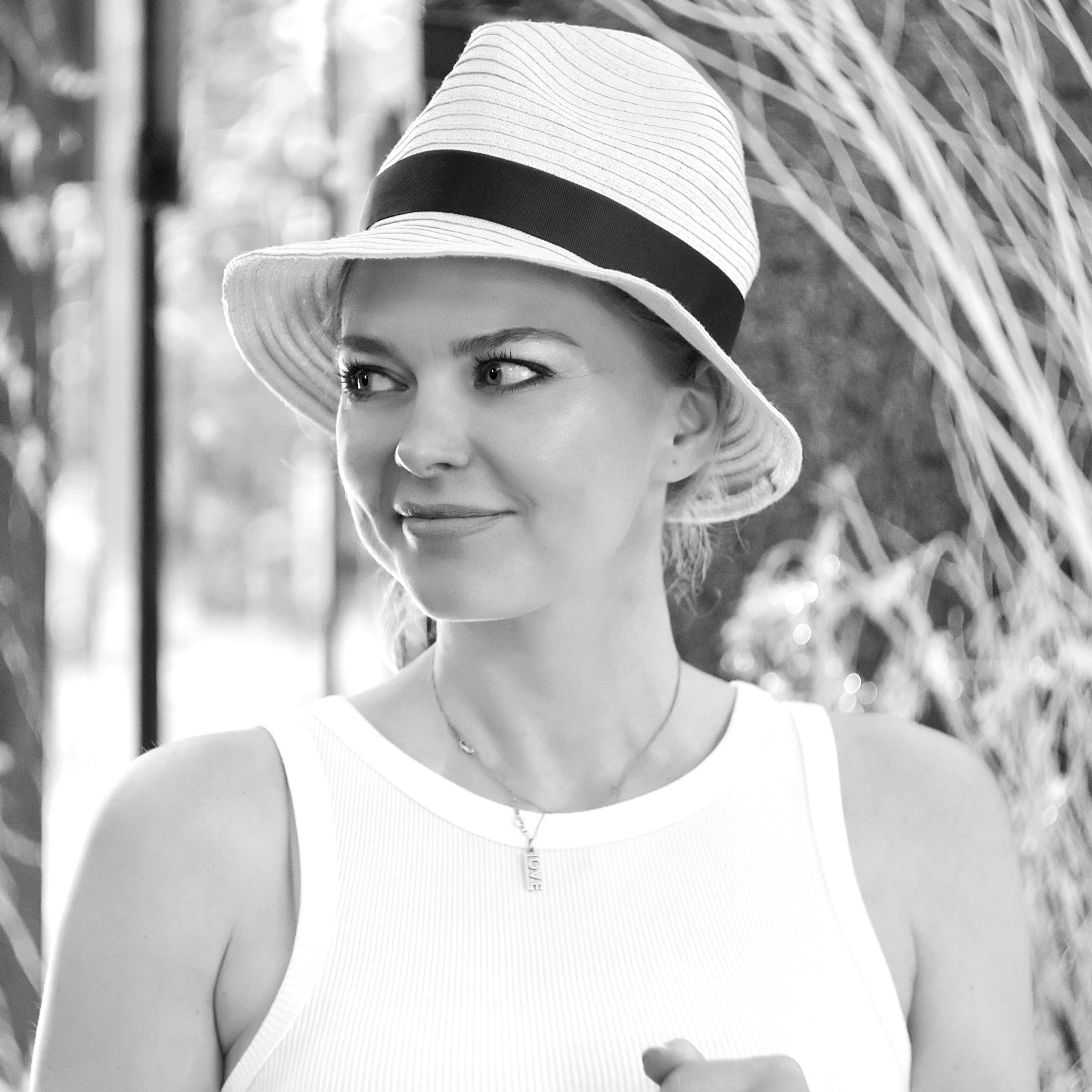 Irina Blohina, ukrainian tv host